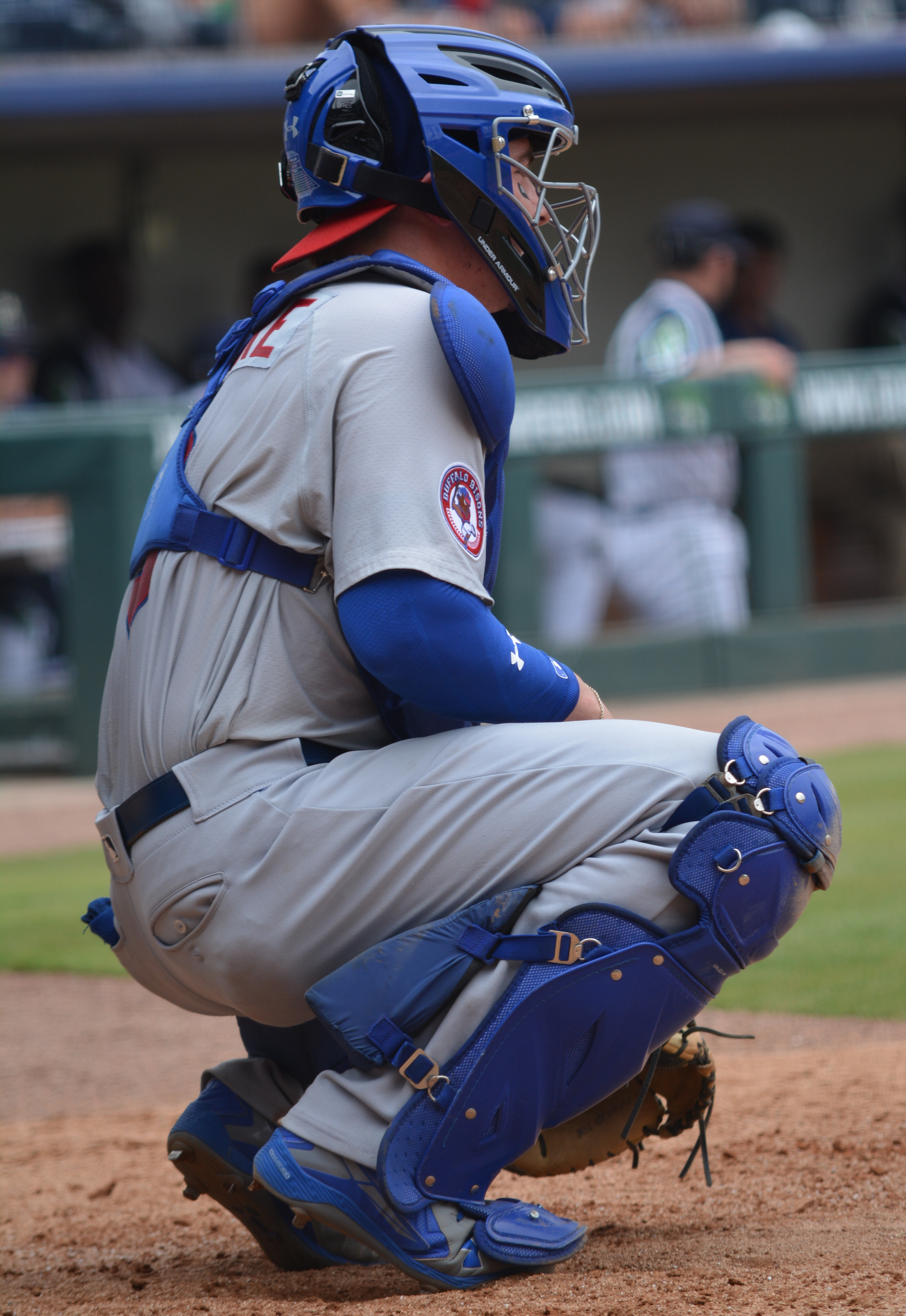 Reese McGuire catching for the Buffalo Bisons during a 2018 game at Coolray Field in Gwinnett, Georgia